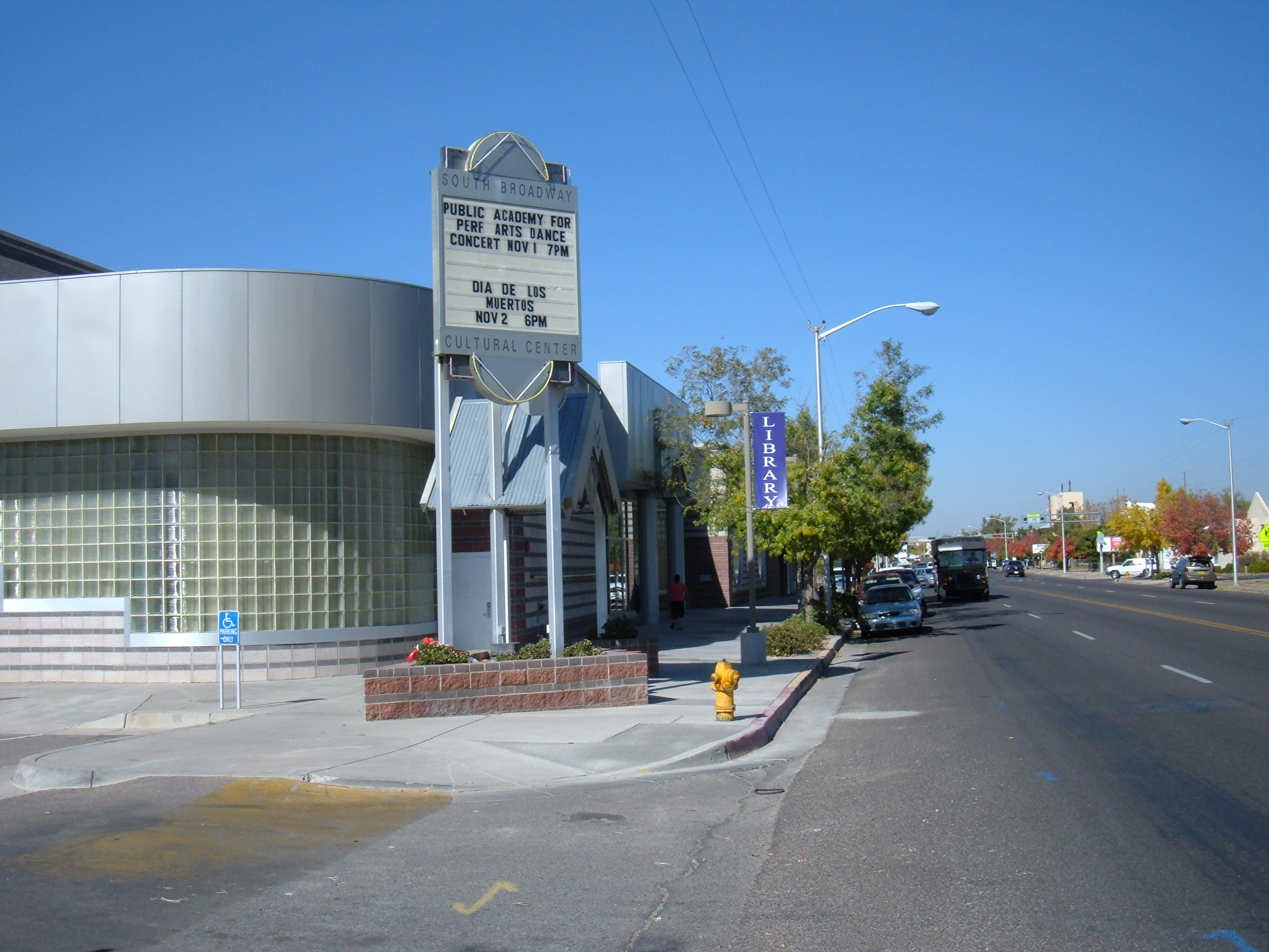 South Broadway Cultural Center and Frances Parrish Library, a branch of the Albuquerque/Bernalillo County Library system. The building is at 1025 Broadway SE in Albuquerque, New Mexico.